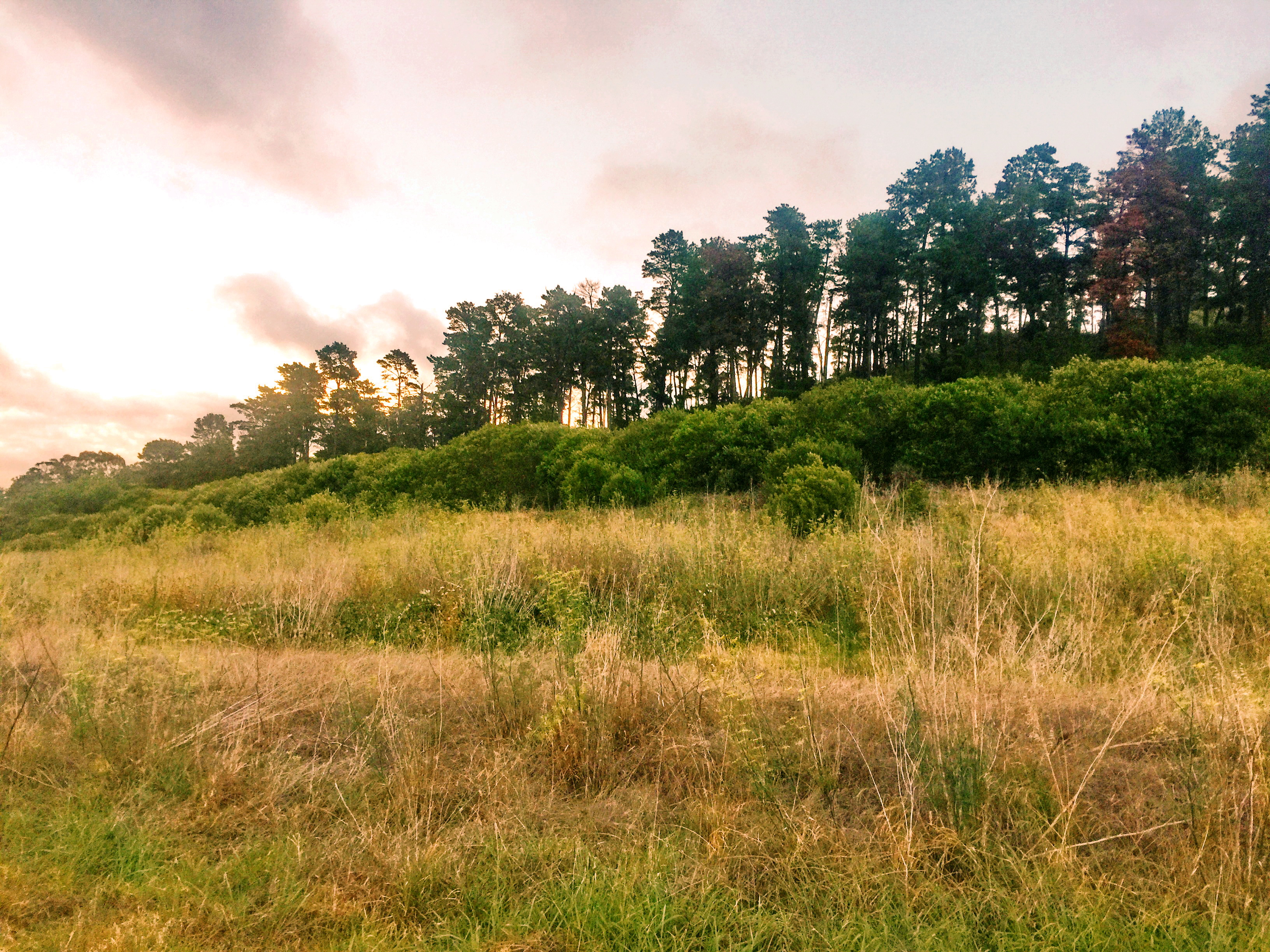 The southern summit of Prospect Hill in Pemulwuy, Sydney, which features a band of Monterey pine trees in the background. The designated park is also called Prospect Hill Pine Forest.